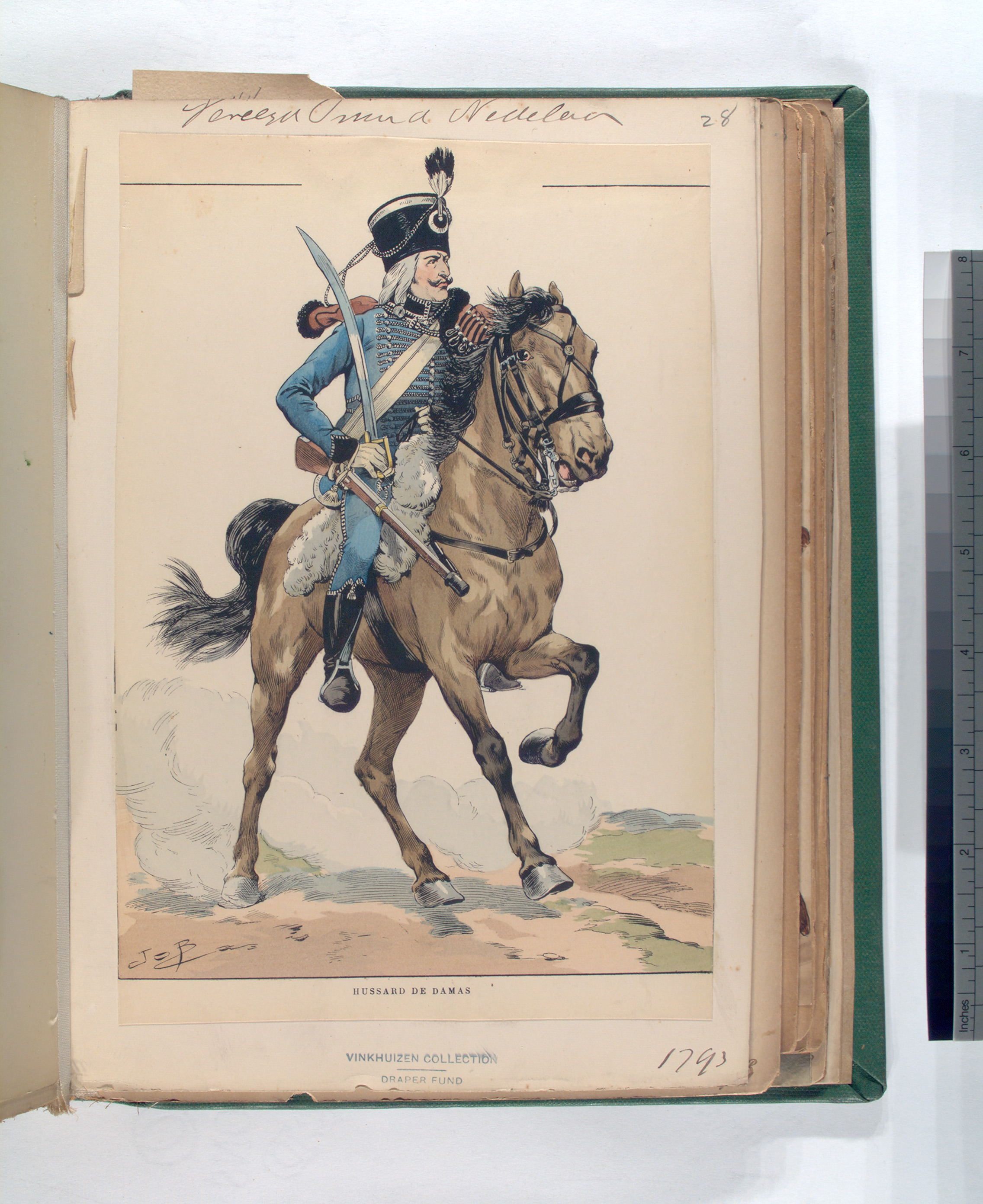 Draper Fund